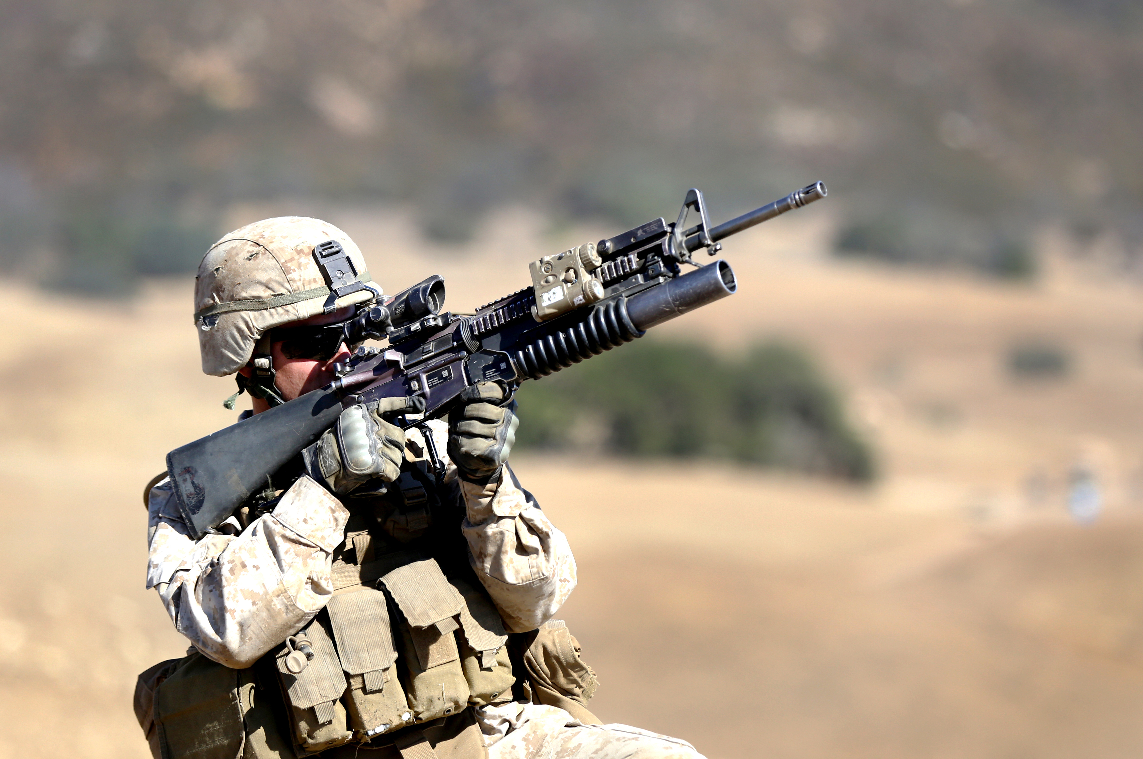 Cpl. Clayton Thomas, squad leader, Lima Company, 3rd Battalion, 5th Marine Regiment, and a native of Coloma, Wis., repels mock enemy attacks with an M203 grenade launcher during an integrated exercise Oct. 15, 2013. The training helped Marines see how multiple elements of an attack work together to accomplish a mission. The Marines also trained with light anti-armor weapons, M240 B medium machine guns and were supported by artillery fire. (U.S. Marine Corps photo by Lance Cpl. Christopher J. Moore/Released)